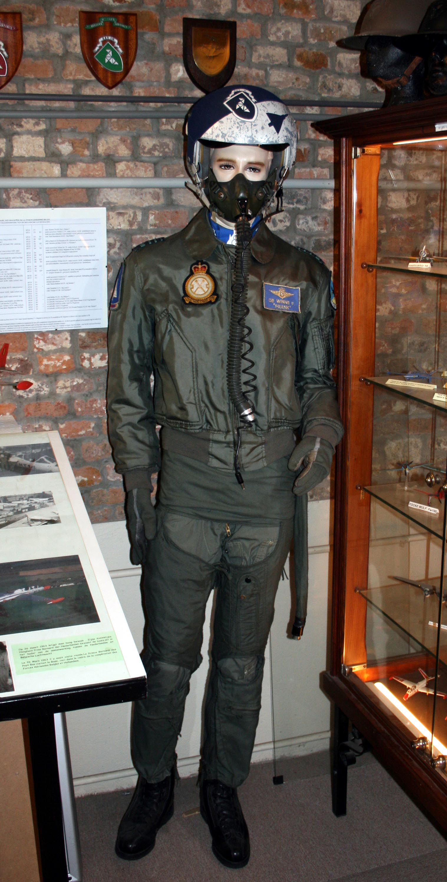 Flight suit of Frank De Winne, Belgian pilot and astronaut